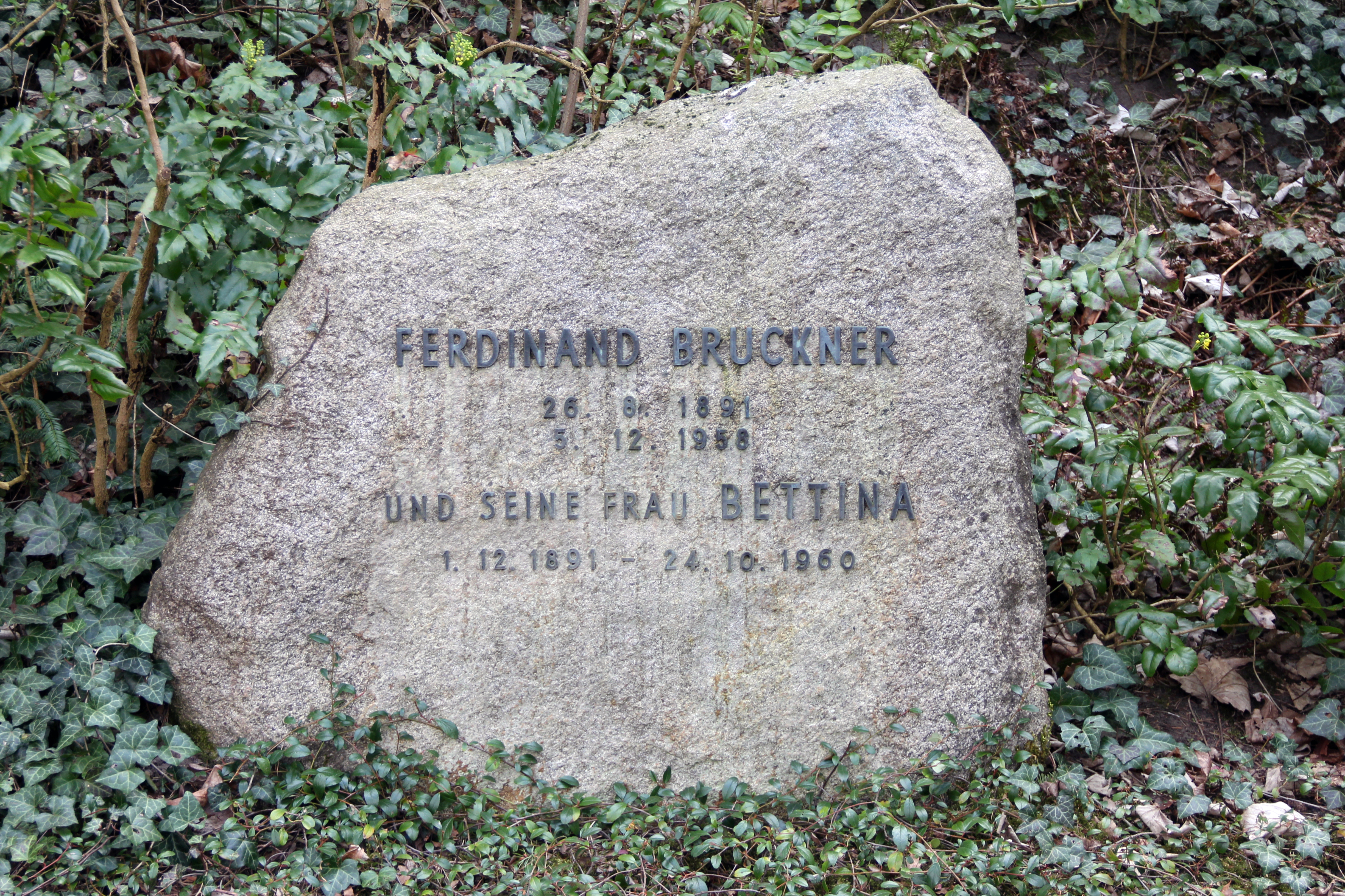 Grave of honor, Ferdinand Bruckner, Trakehner Allee 1, Berlin-Westend, Germany